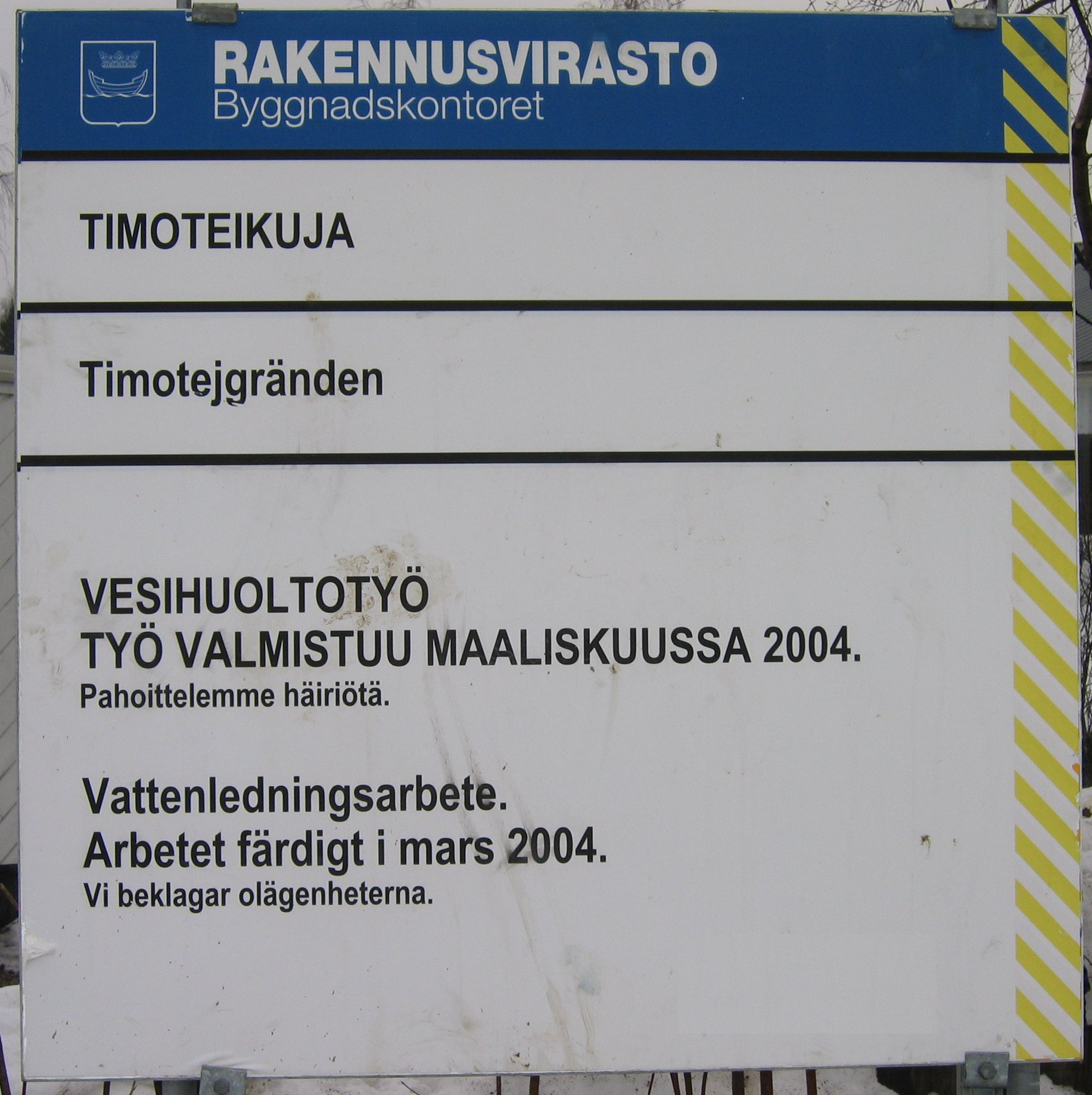 Infosign for pipeline constructionwork in Helsingin kaupungin Rakennusvirasto buildingsite. Author Matti Passinen.